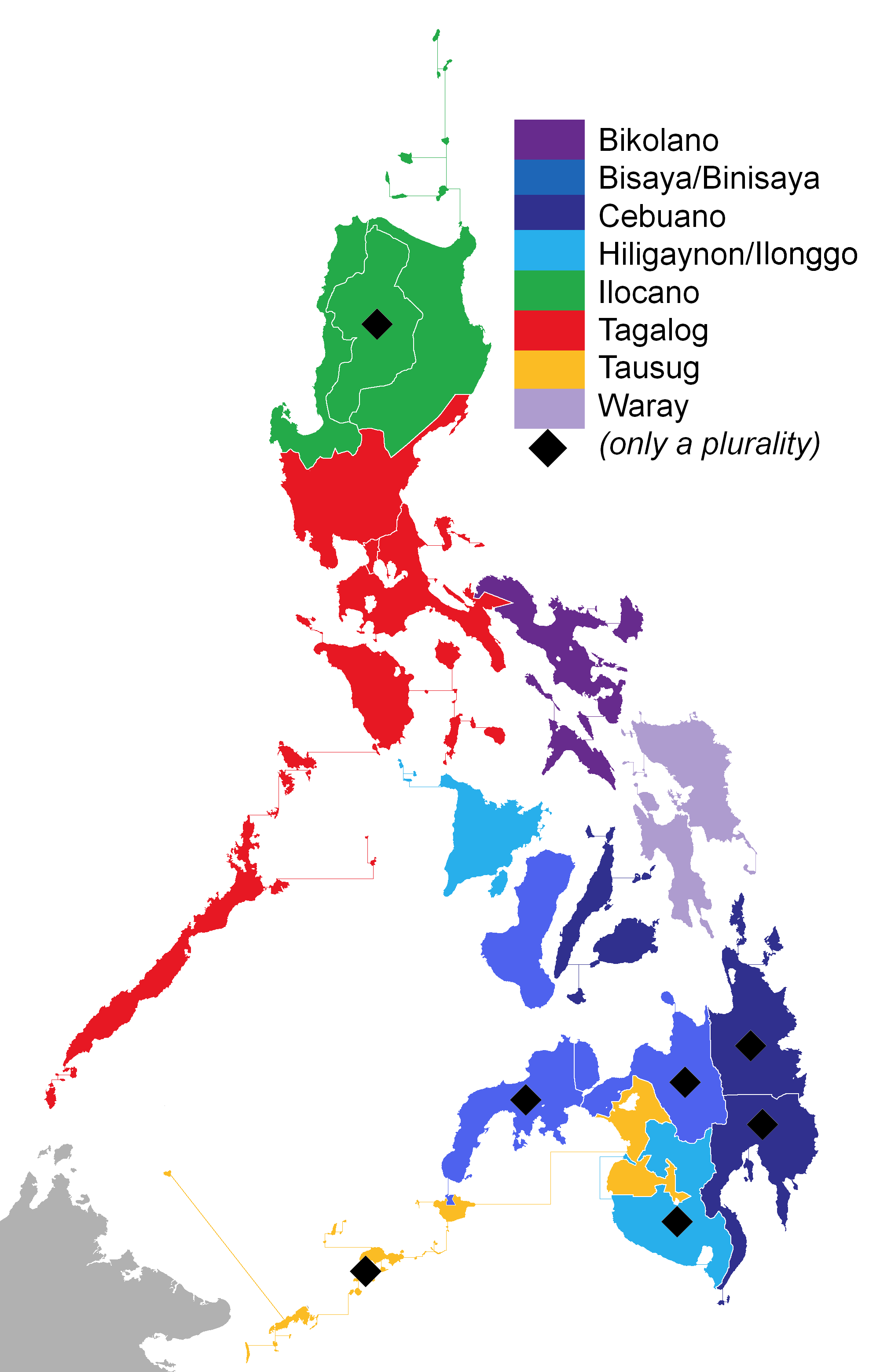 Languages that have the most number of speakers in each of the Philippines' regions.